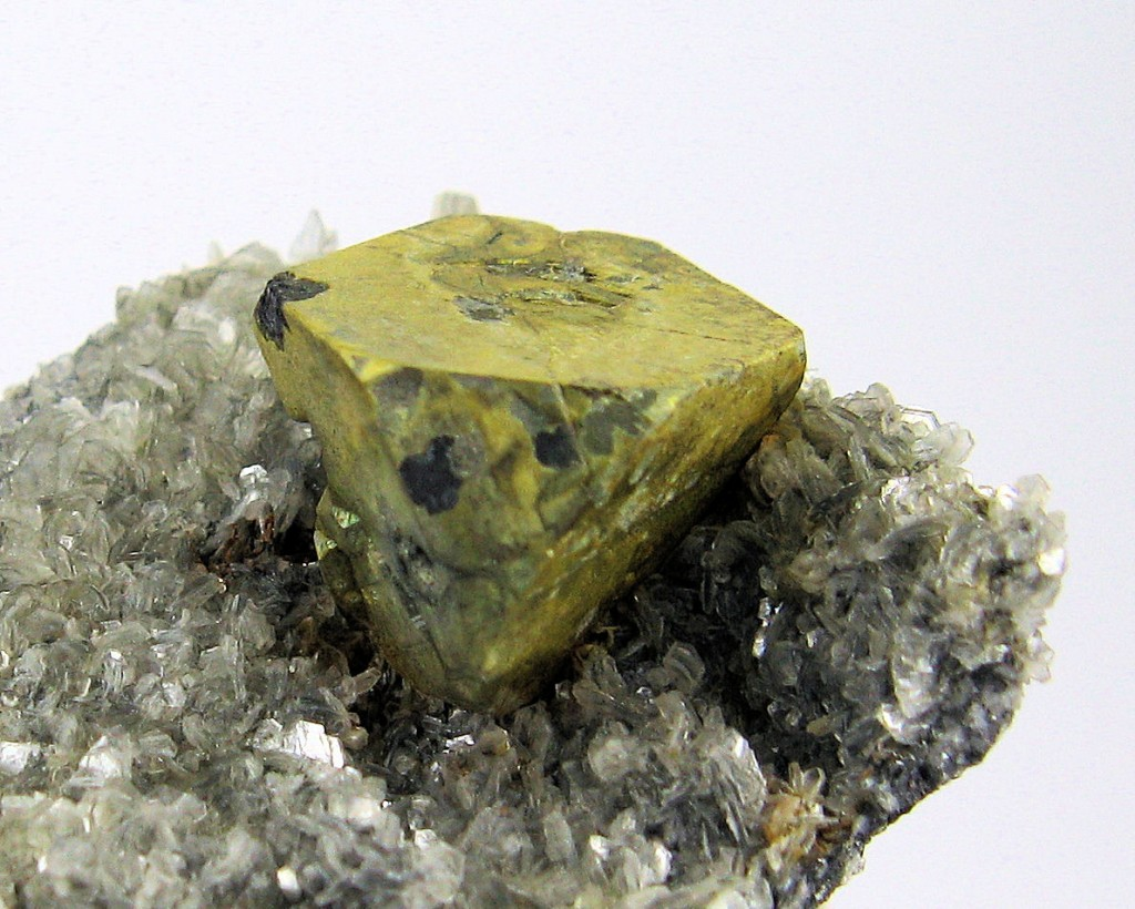 Kësterite, Mushistonite Locality: Mt Xuebaoding, Pingwu Co., Mianyang Prefecture, Sichuan Province, China Original description: Kësterite crystal covered with mushistonite on a matrix with mica. Overall size: 60 mm x 45 mm. Kësterite crystal size: 15 mm wide. Weight: 64 g. Undamaged.